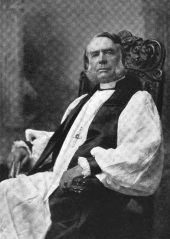 The Rt. Rev. Edward Robert Atwill, first Episcopal Bishop of the Diocese of West Missouri. Consecrated October 14, 1890.